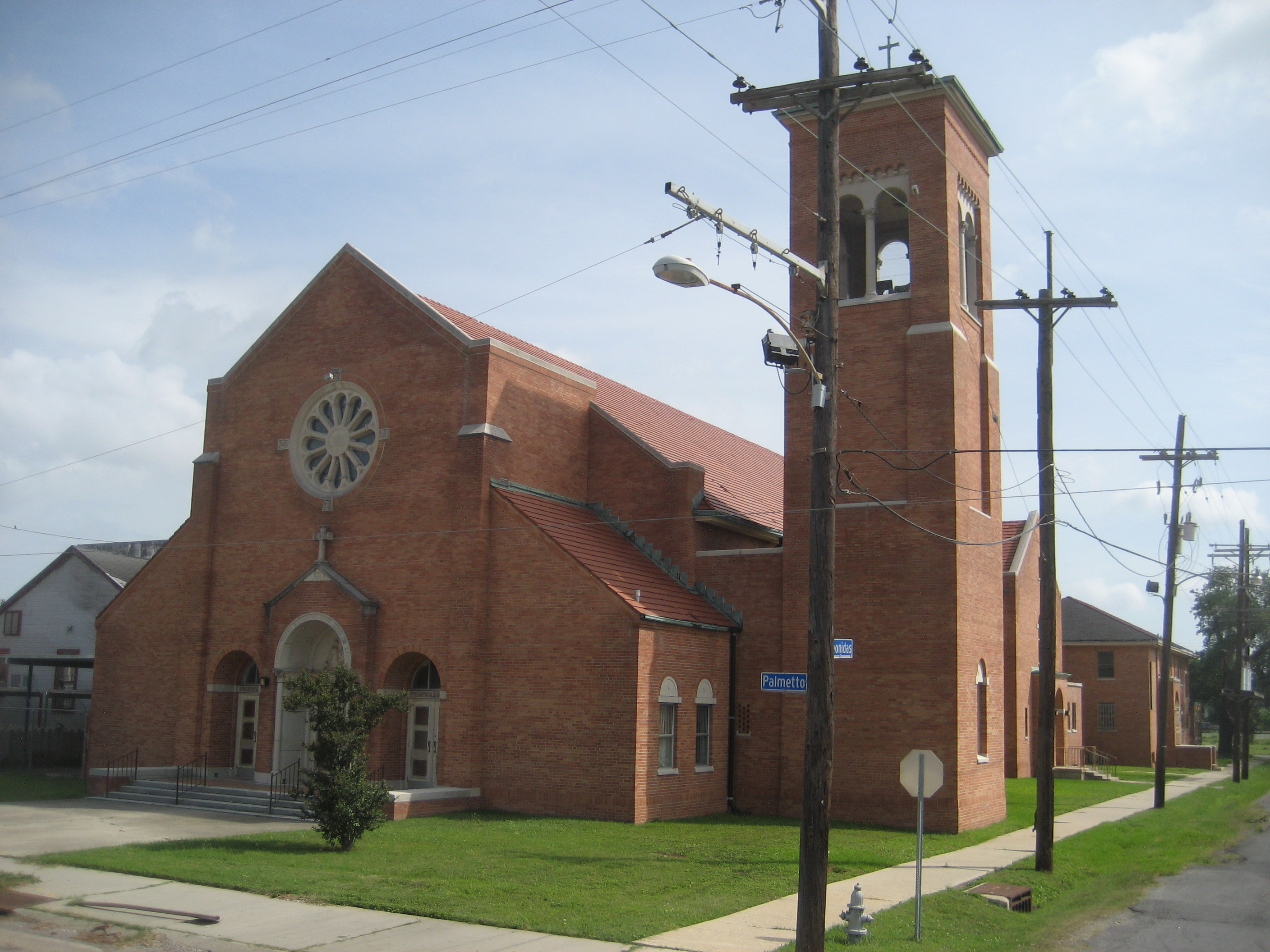 Saint Theresa Little Flower Roman Catholic Church, New Orleans.